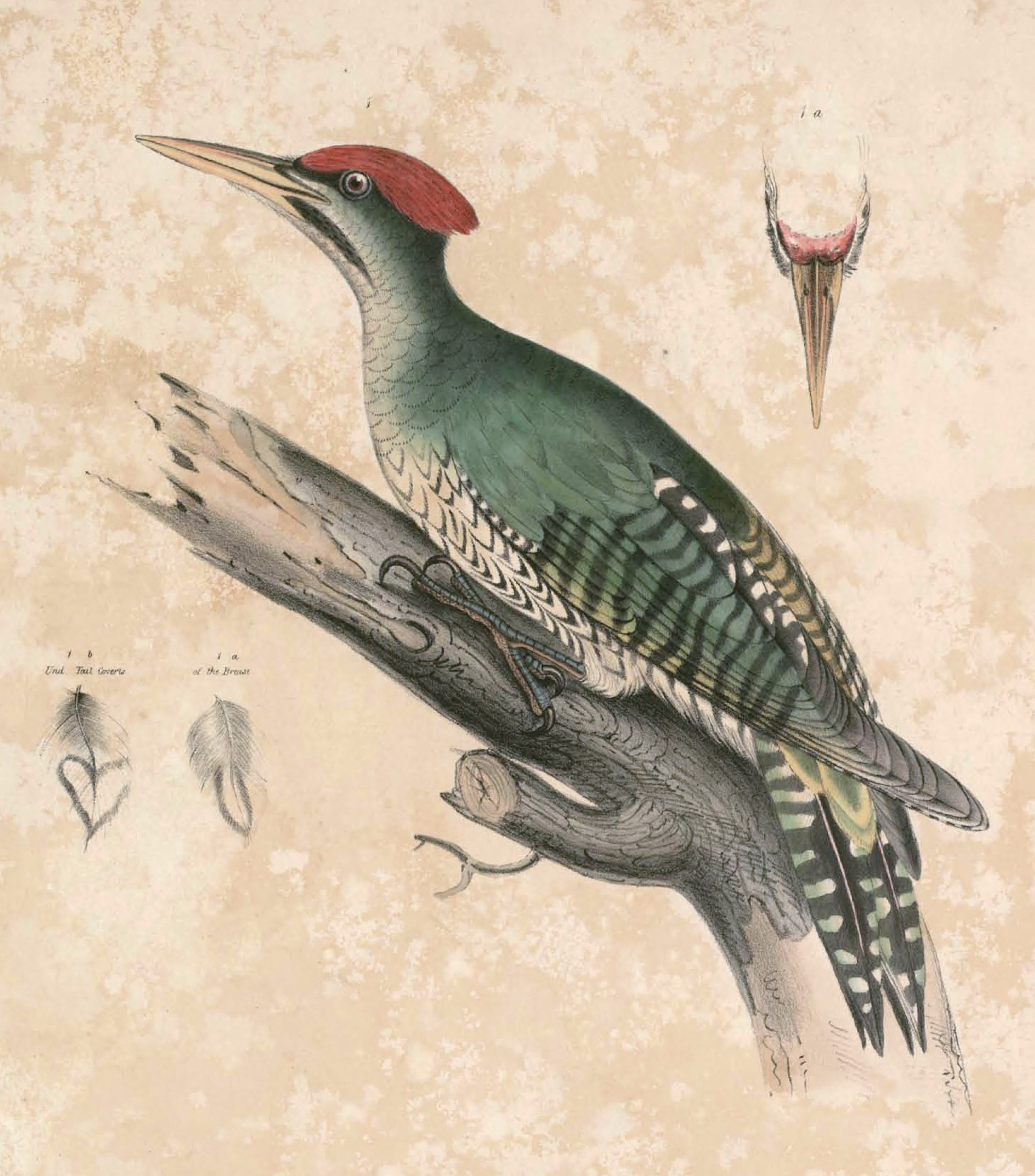 « Picus dimidiatus » = Picus viridanus (Streak-breasted Woodpecker)